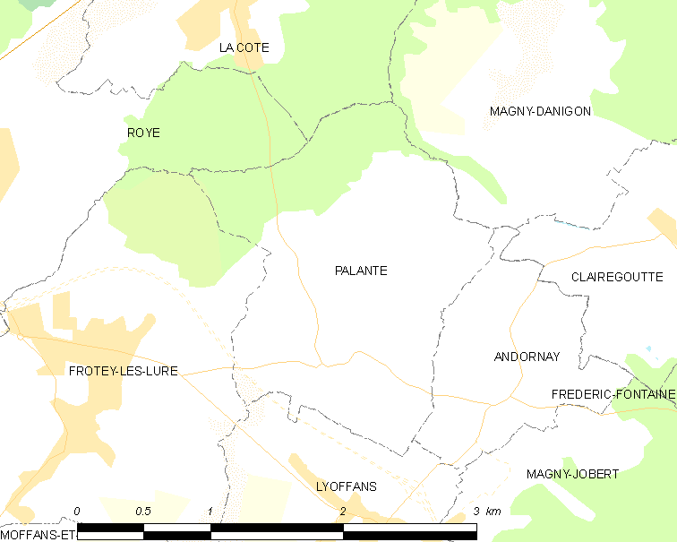 Map of French municipality